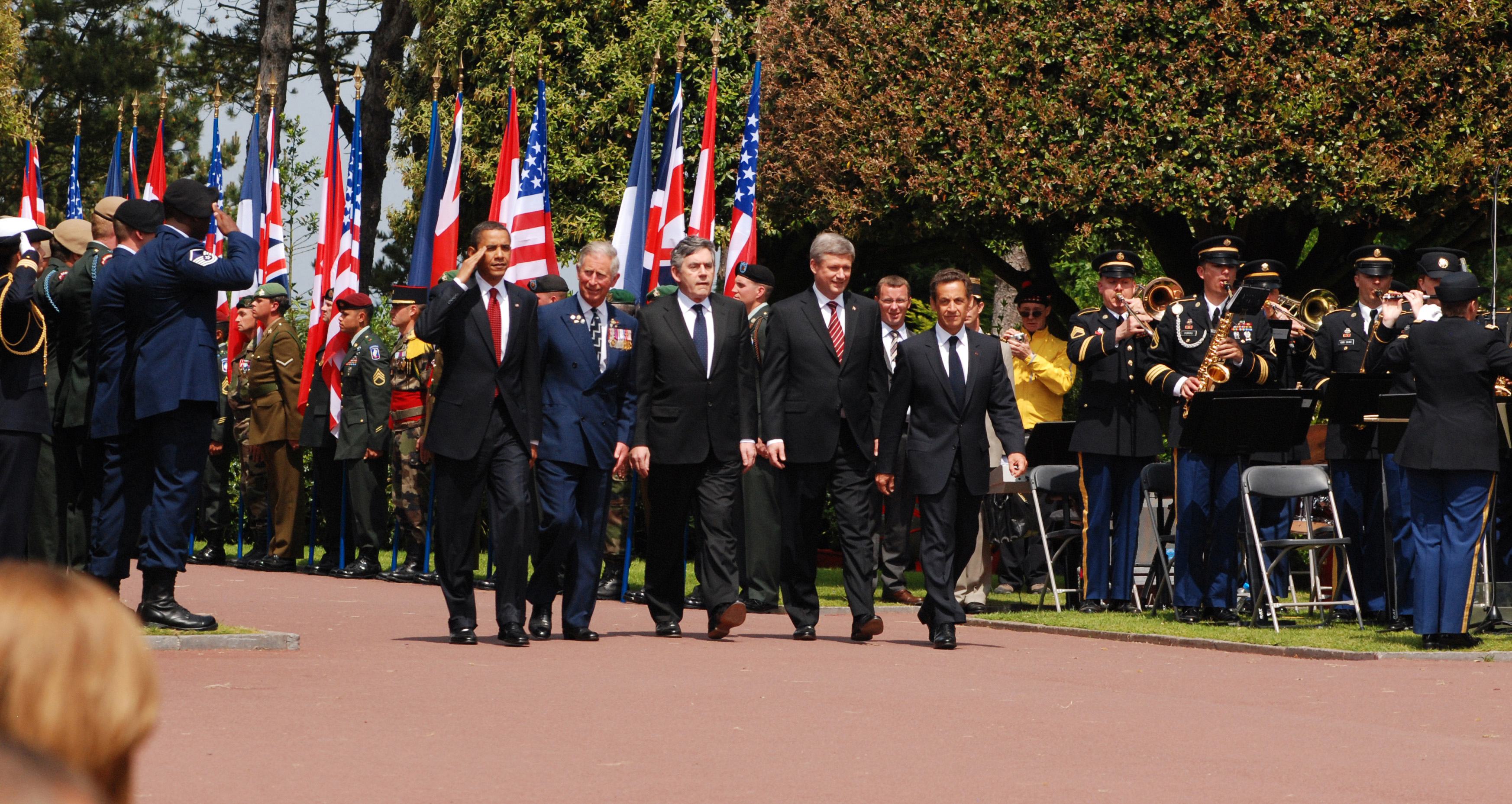 (Left to right) President Barack Obama, accompanied by Prince Charles of Wales, British Prime Minister Gordon Brown, Canadian Prime Stephen Harper and President of France Nicolas Sarkozy, return a salute to an honor guard of U.S. and allied servicemembers during the 65th anniversary commemoration of D-Day at the Normandy American Cemetery and Memorial, June 6. The heads of state honored veterans of the D-Day invasion and World War II. (Photo Credit: Dave Melancon). Full story